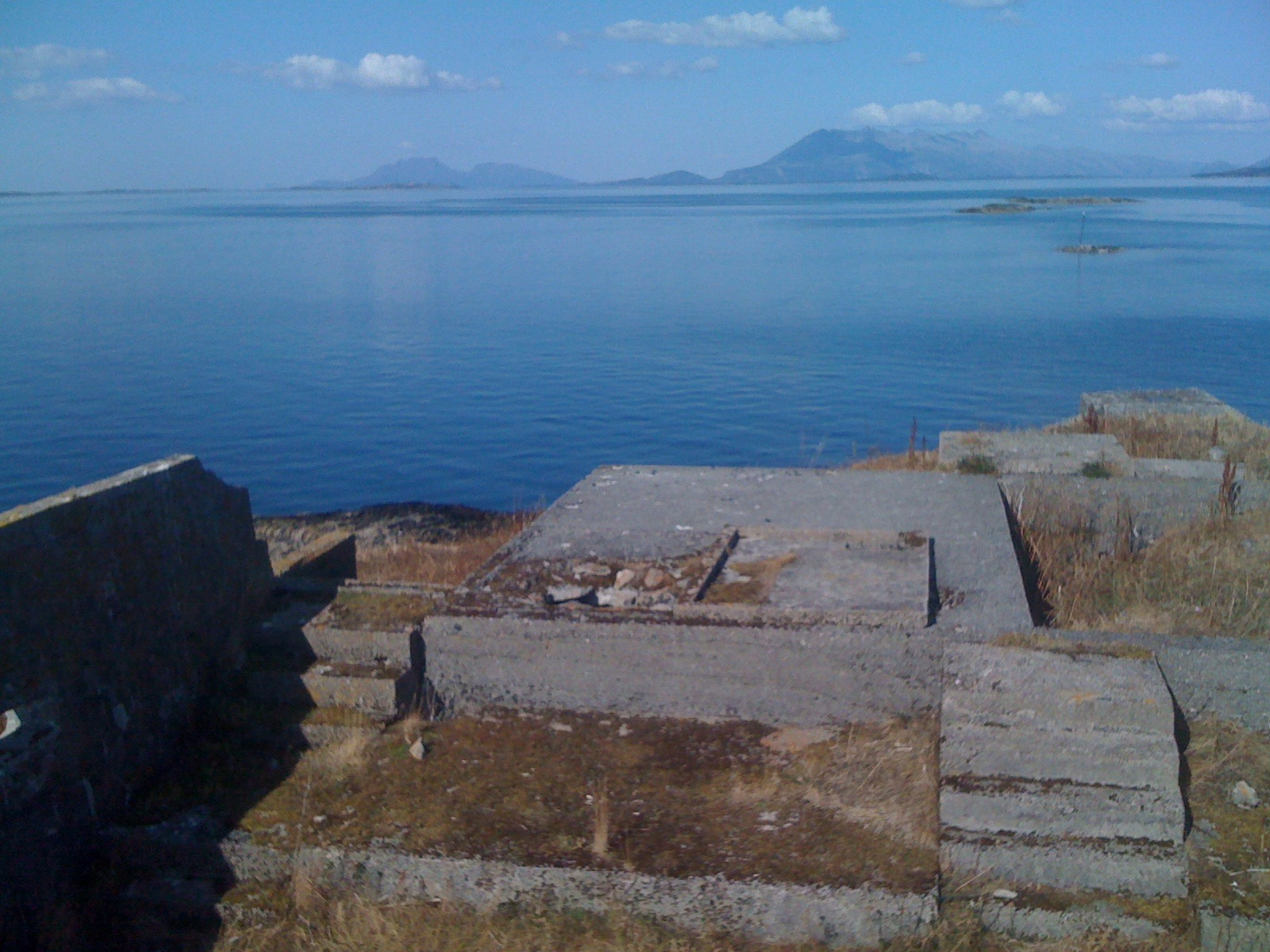 View North from the island Skjelva.